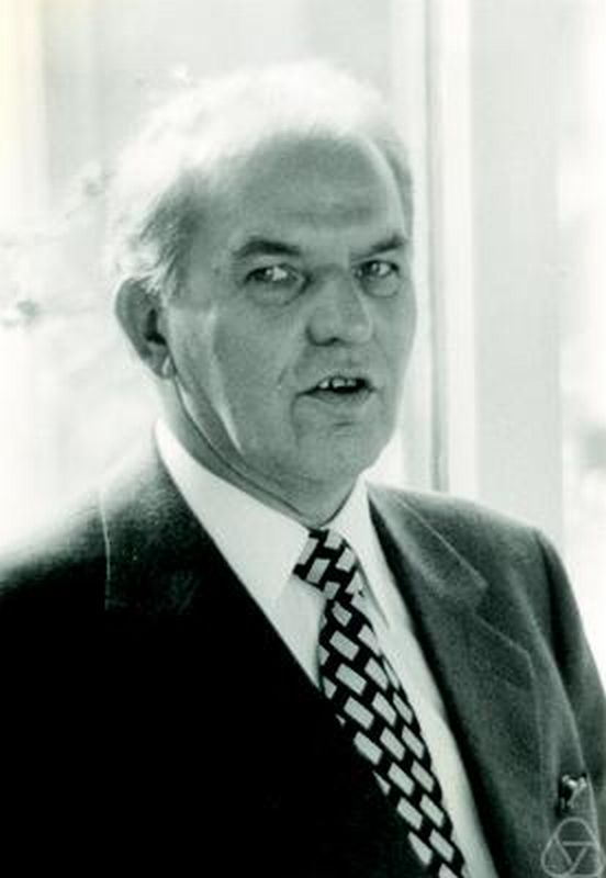 Hans-Joachim Kowalsky 1977